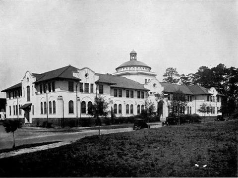 West Hall, former Administration Building, at the former Georgia State Woman's College, now Valdosta State University